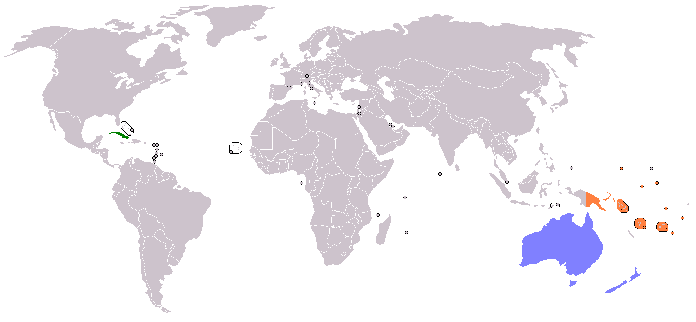 map illustrating relations between Cuba and Oceania